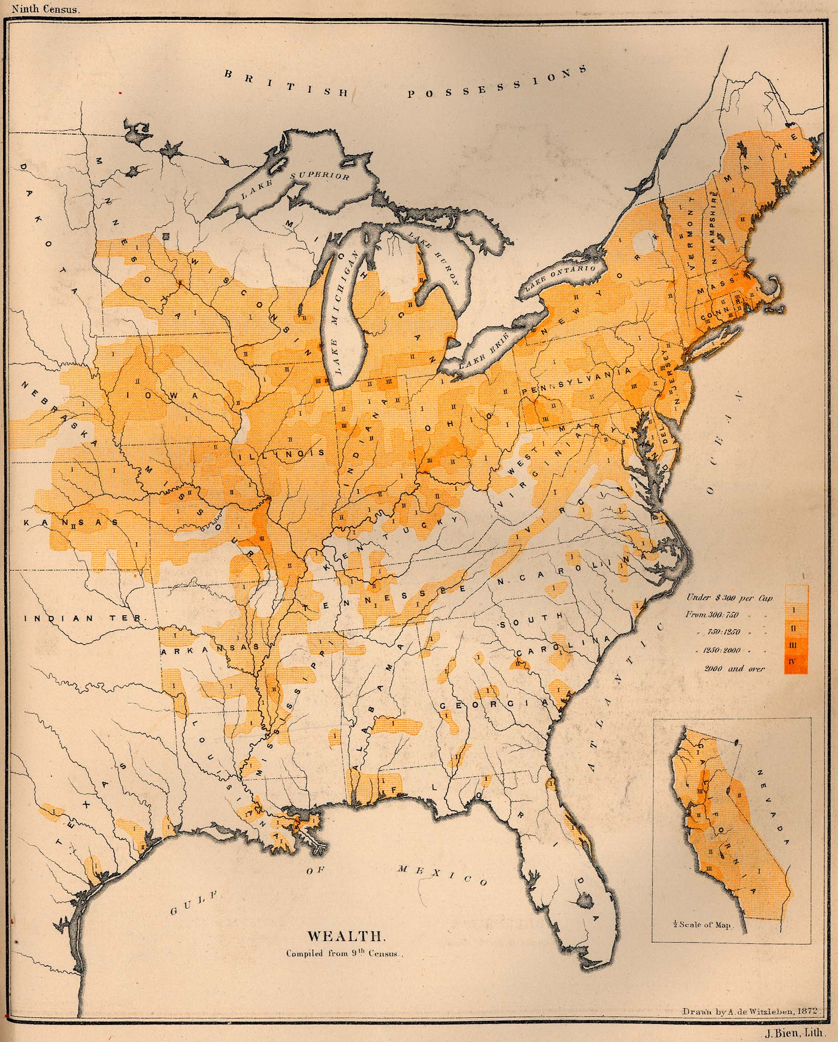 Map of the per capita wealth of the United States in 1872; note the discrepancy of wealth between the North and South, from the American Civil War and manufacturing economies to the north.